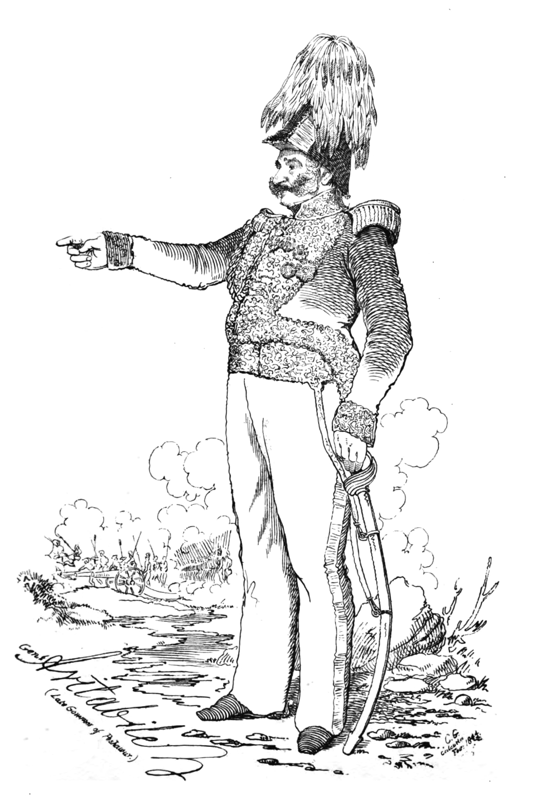 General Avitabille